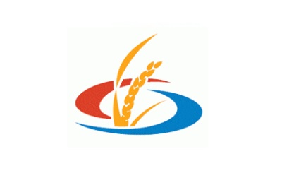 Flag of Minamiuonuma Niigata